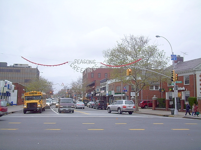 Bell Boulevard crossing Northern Boulevard in Bayside, Queens NY.